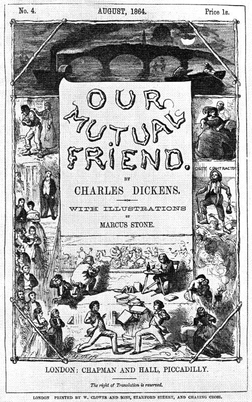 The August 1864 Wrapper for Our Mutual Friend